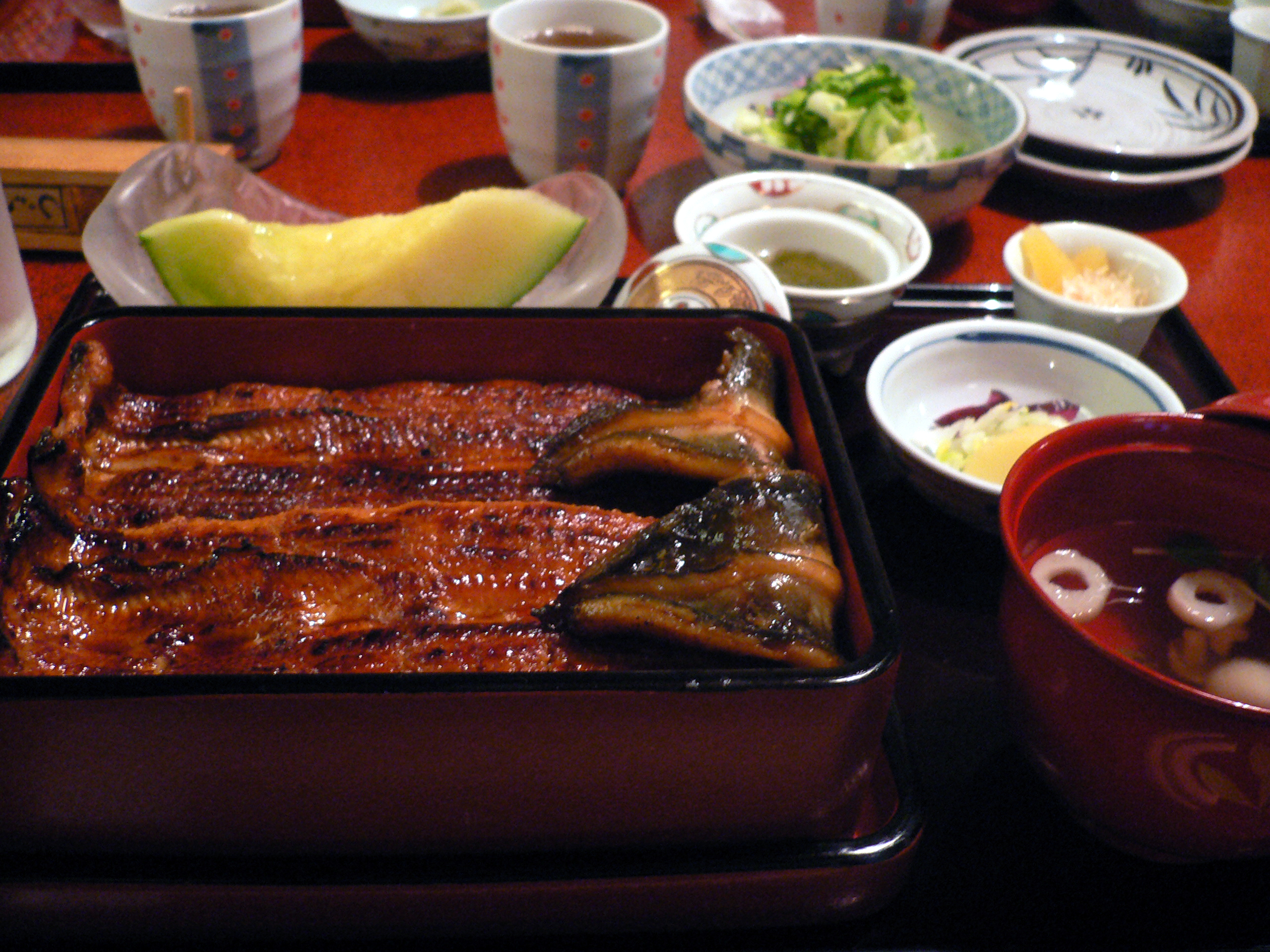 A grilled eel (Eel).